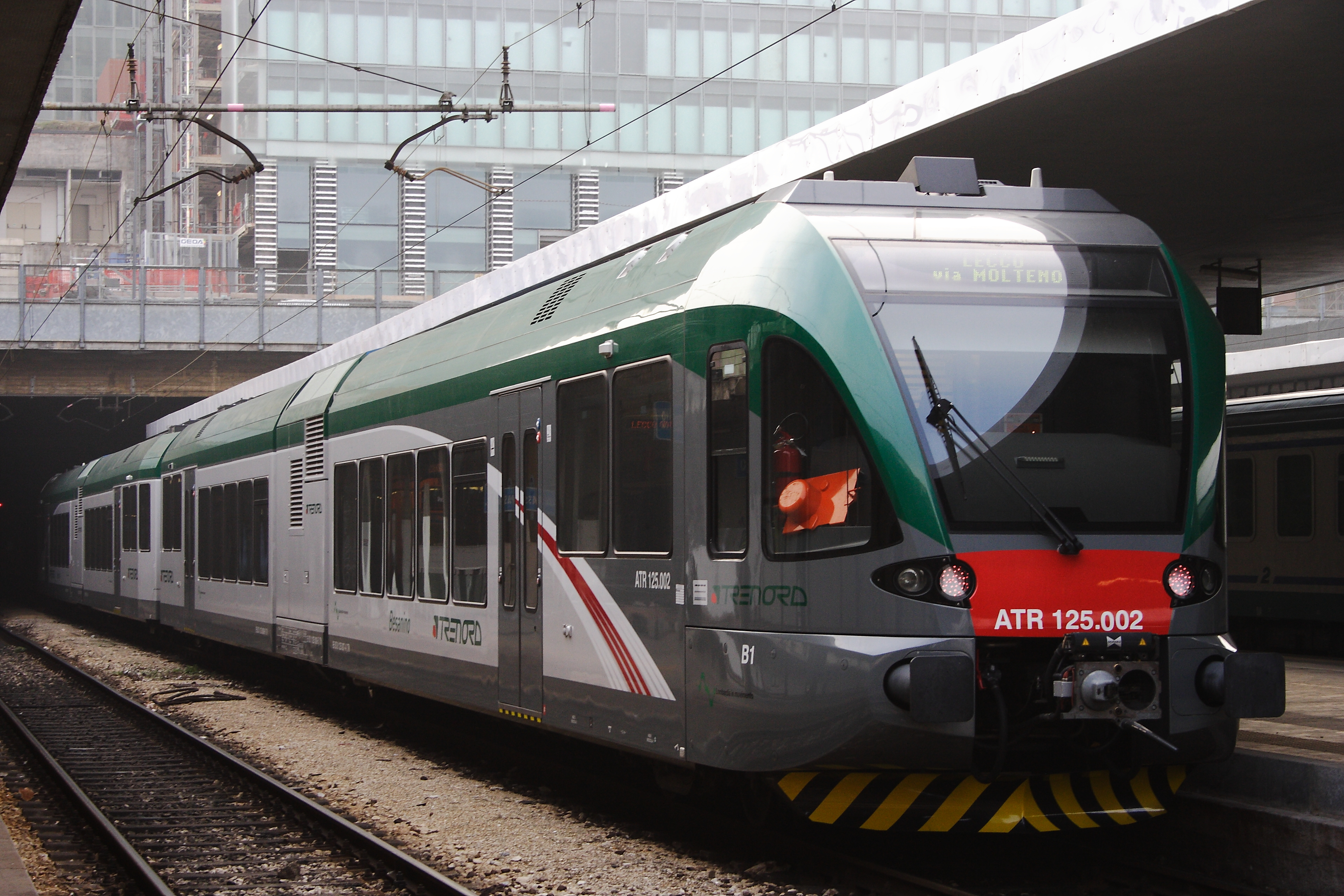 ATR 125 called Besanino in Milano P.ta garibaldi station